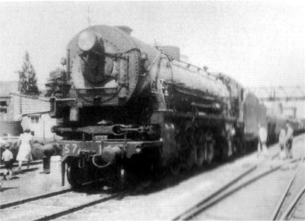 NSWGR 57-Class Mountain Class Locomotive